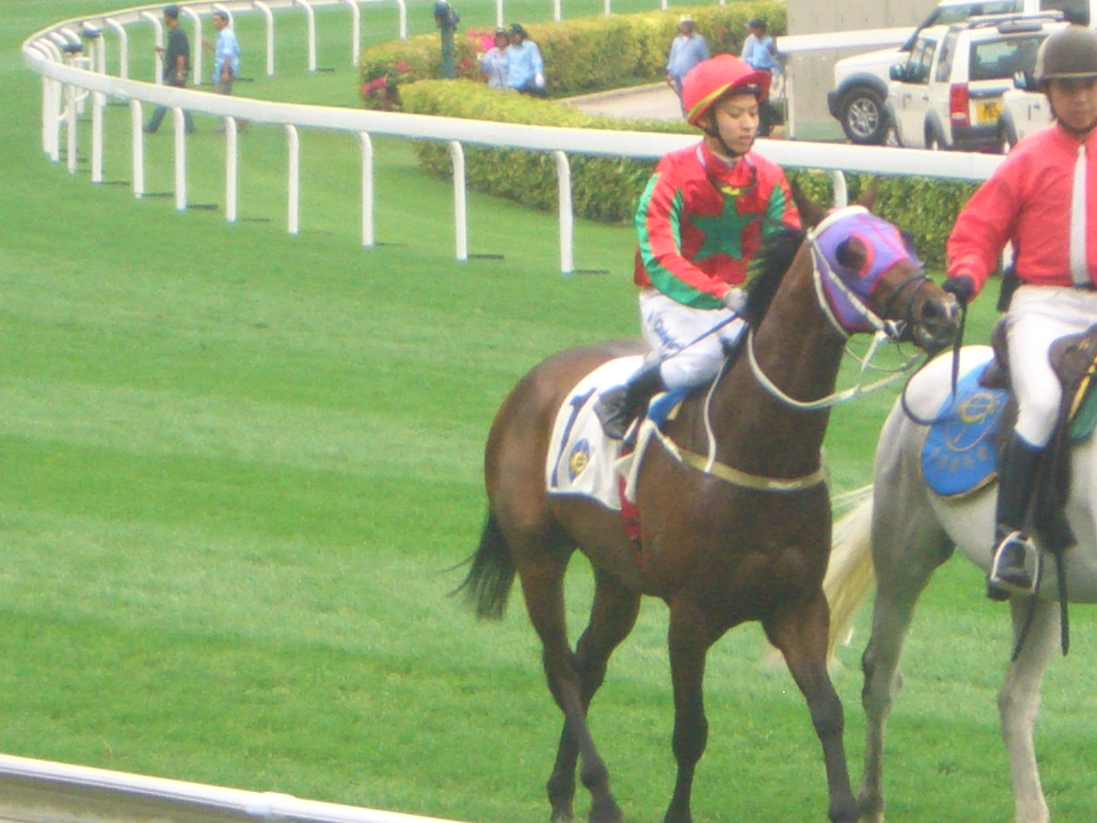 Matthew Chadwick is Hong Kong jockey riding with Helene Elite 中文（香港）: 蔡明紹策騎喜蓮精英取得勝利